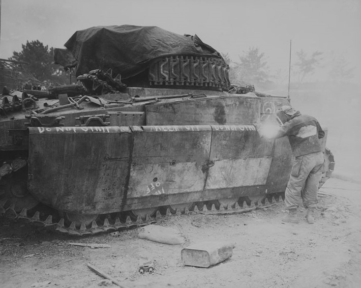 Welder putting new type armor on tank. This type armor prevents Japs from throwing satchel charges under tank and also is used for extra all around armor.